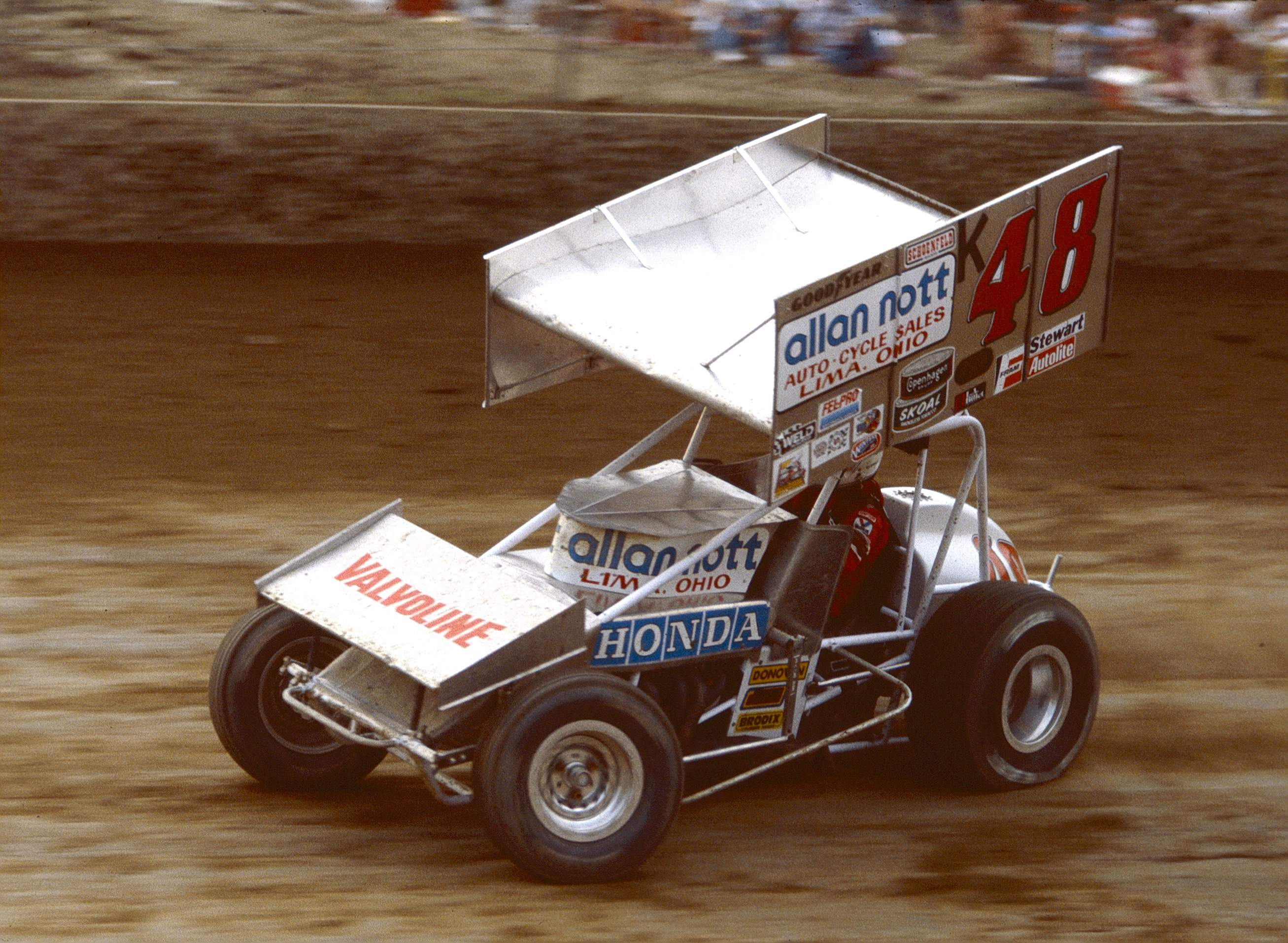 Sprint car driver Mark Kinser. Photo By Ted Van Pelt